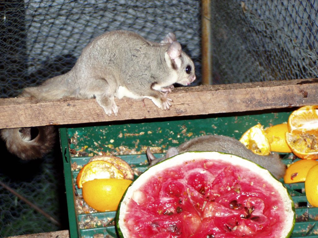 A sugar glider raised in captivity